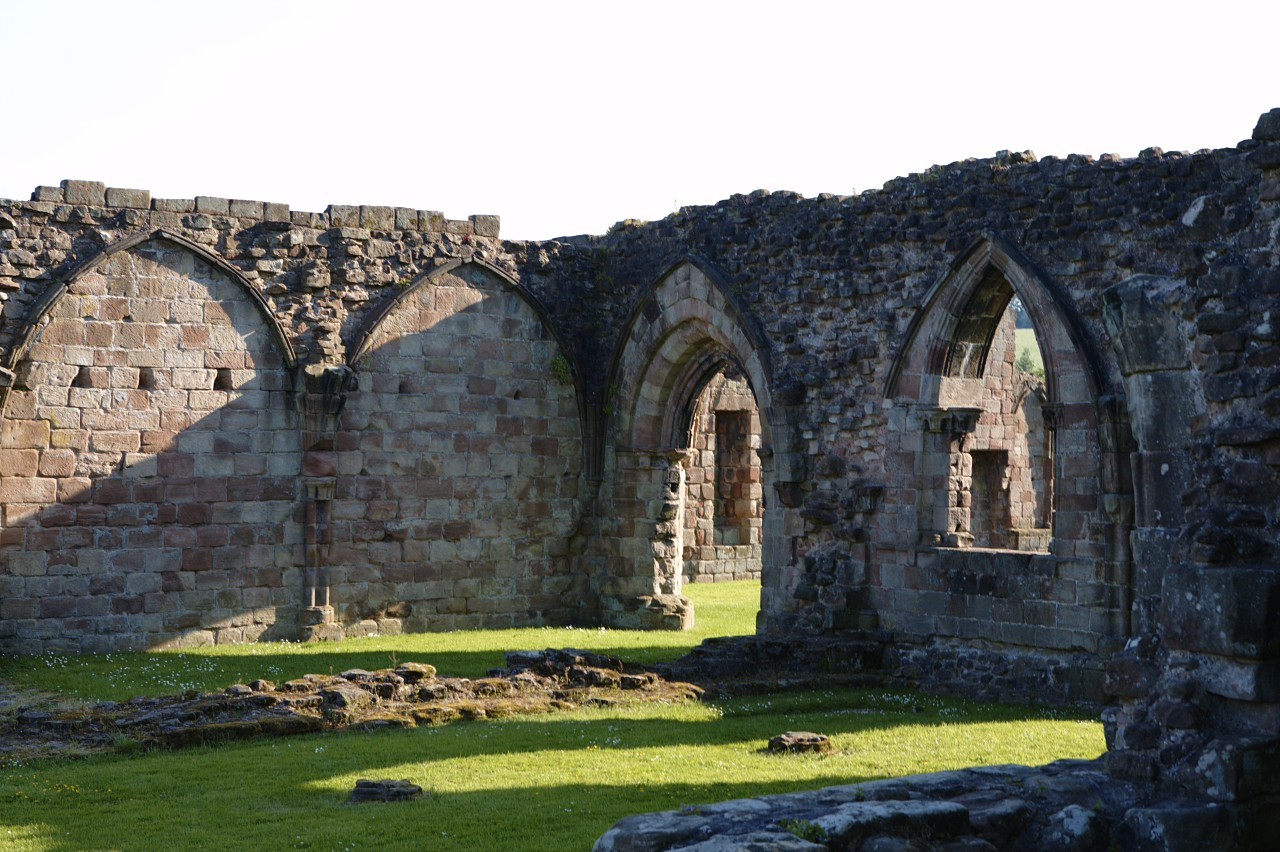 Photo of Croxden Abbey (Giles Jones, )